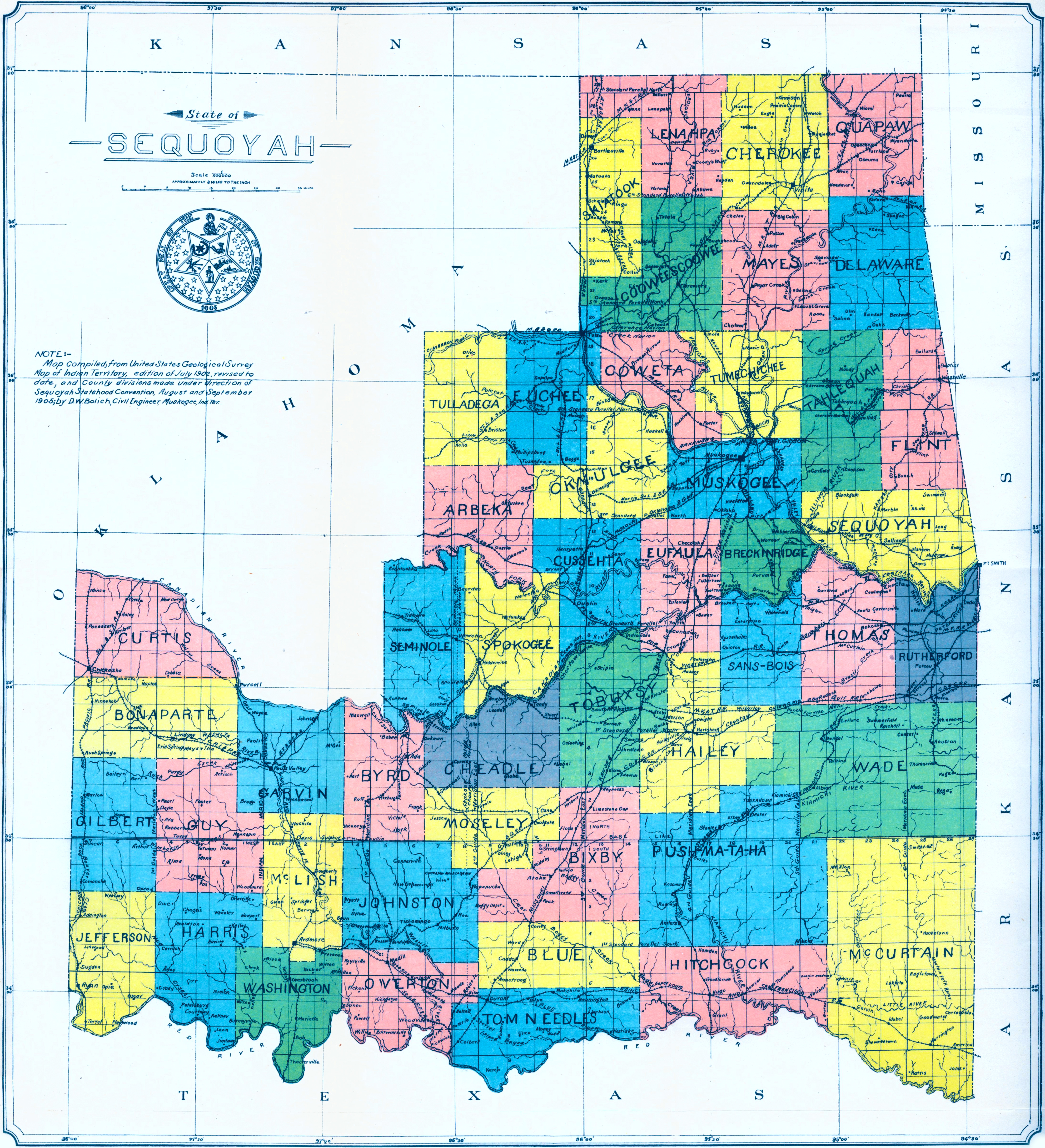 This map of the ‘State of Sequoyah’ - complete with a proposed State Seal - was compiled from the USGS Map of Indian Territory (1902), revised to include the county divisions made under direction of Sequoyah Statehood Convention (1905), by D.W. Bolich, a civil engineer at Muskogee. It was found at this page of the McCasland Digital Collection of Early Oklahoma & Indian Territory Maps at the Oklahoma State University Library.